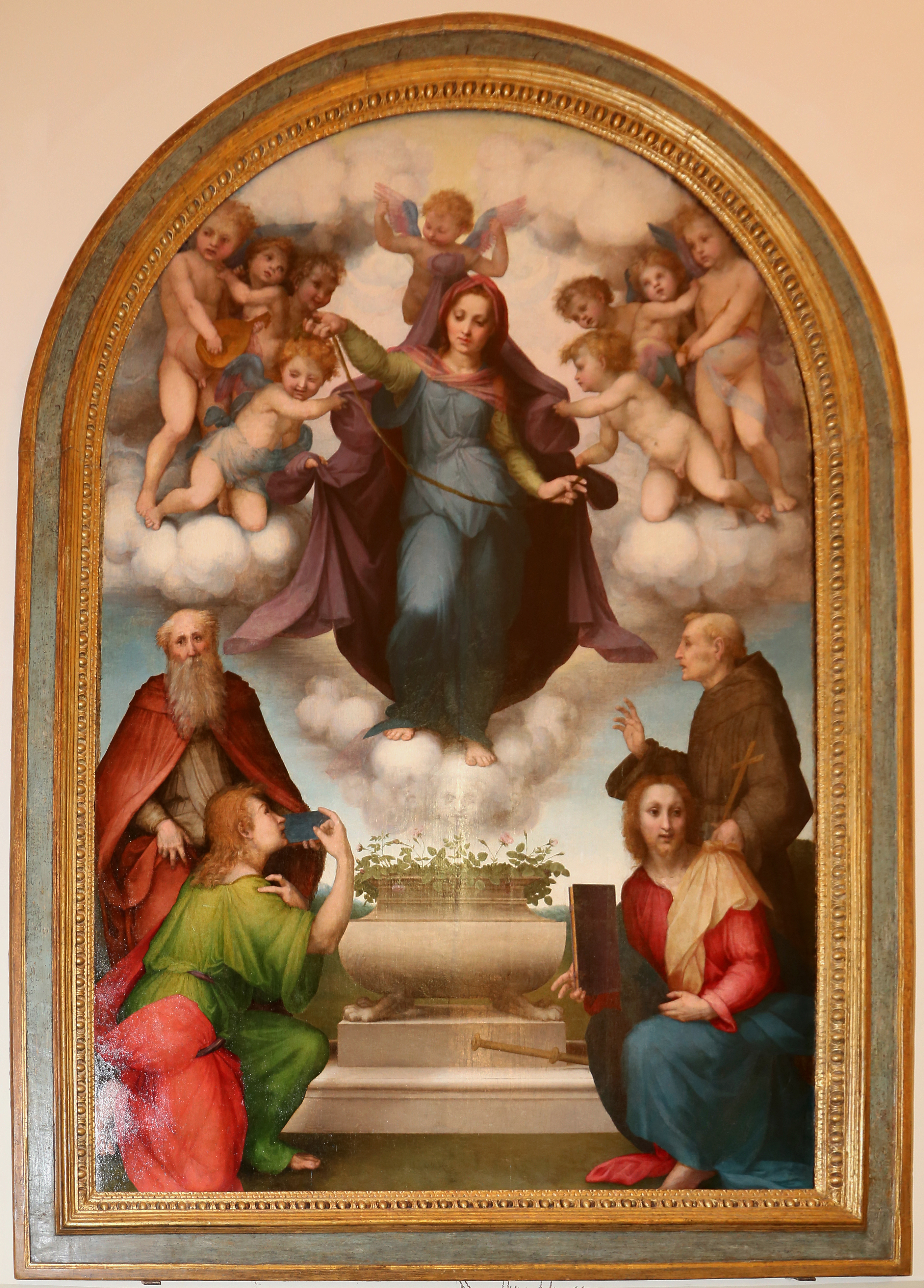 San Michele a Volognano